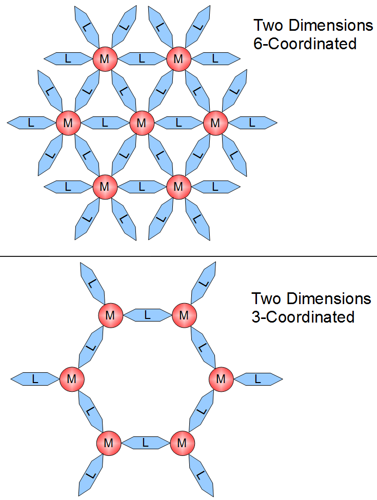 Simple diagram of 3 and 6 coordination planer (2-dimensional) geometry.